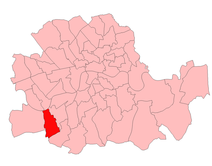 A map of Wandsworth Central constituency within the London County Council area, as it existed from 1918 to 1949.